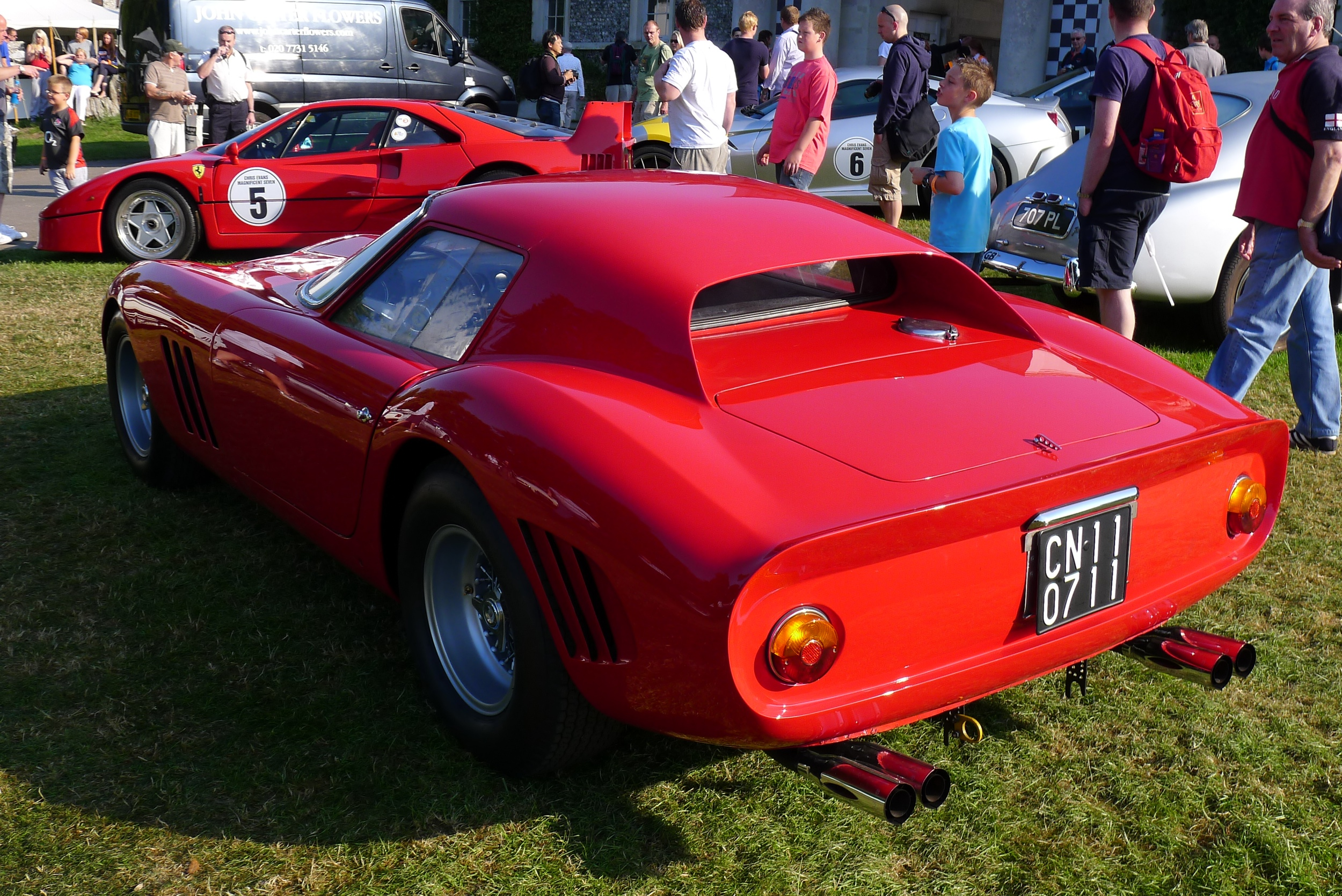 1963 Ferrari 250 GTO chassis #4675.[1][2]